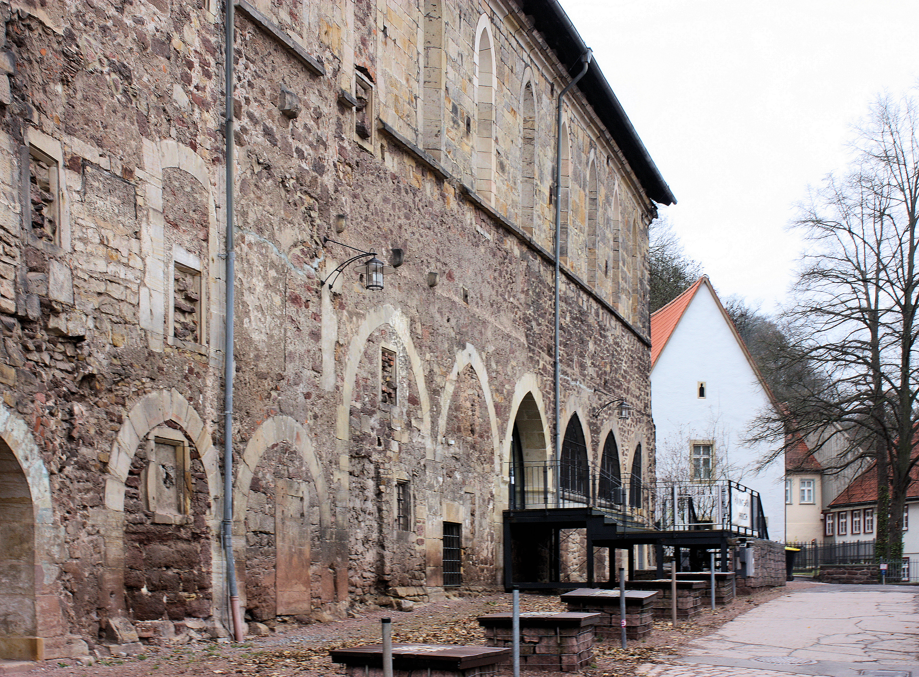 Eisenach, the Thüringer Museum, department of medieval art in the Predigerkirche